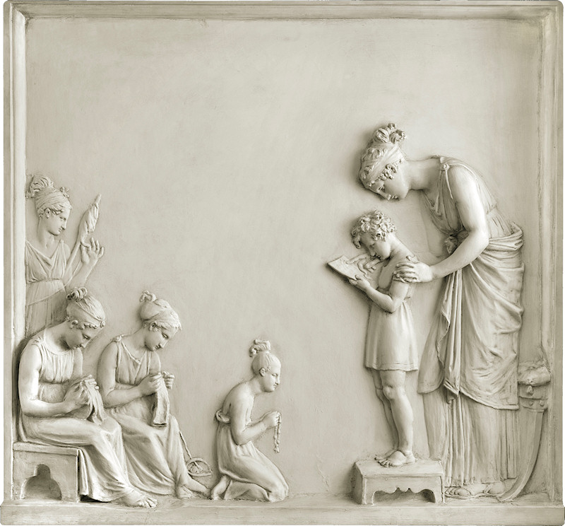 In all likelihood, Canova executed the two plaster reliefs Feed the Hungry and Teach the Ignorant for Abbondio Rezzonico, who hung them in an area set aside for a school he created to educate children from the lower-classes. This bas-relief attests to the educational criteria of the times: the rebellious curly-haired boy is being taught to read, while the girls are learning to spin and weave. In the foreground, a little girl is kneeling and reciting the Rosary. The bas-relief was reproduced in an engraving by Antonio Banzo (engraver) and Giovanni Demin (draughtsman): copperplate etching retouched with burin; 300 x 278 mm. Regarding the Rezzonico bas-reliefs, see entry for Justice.